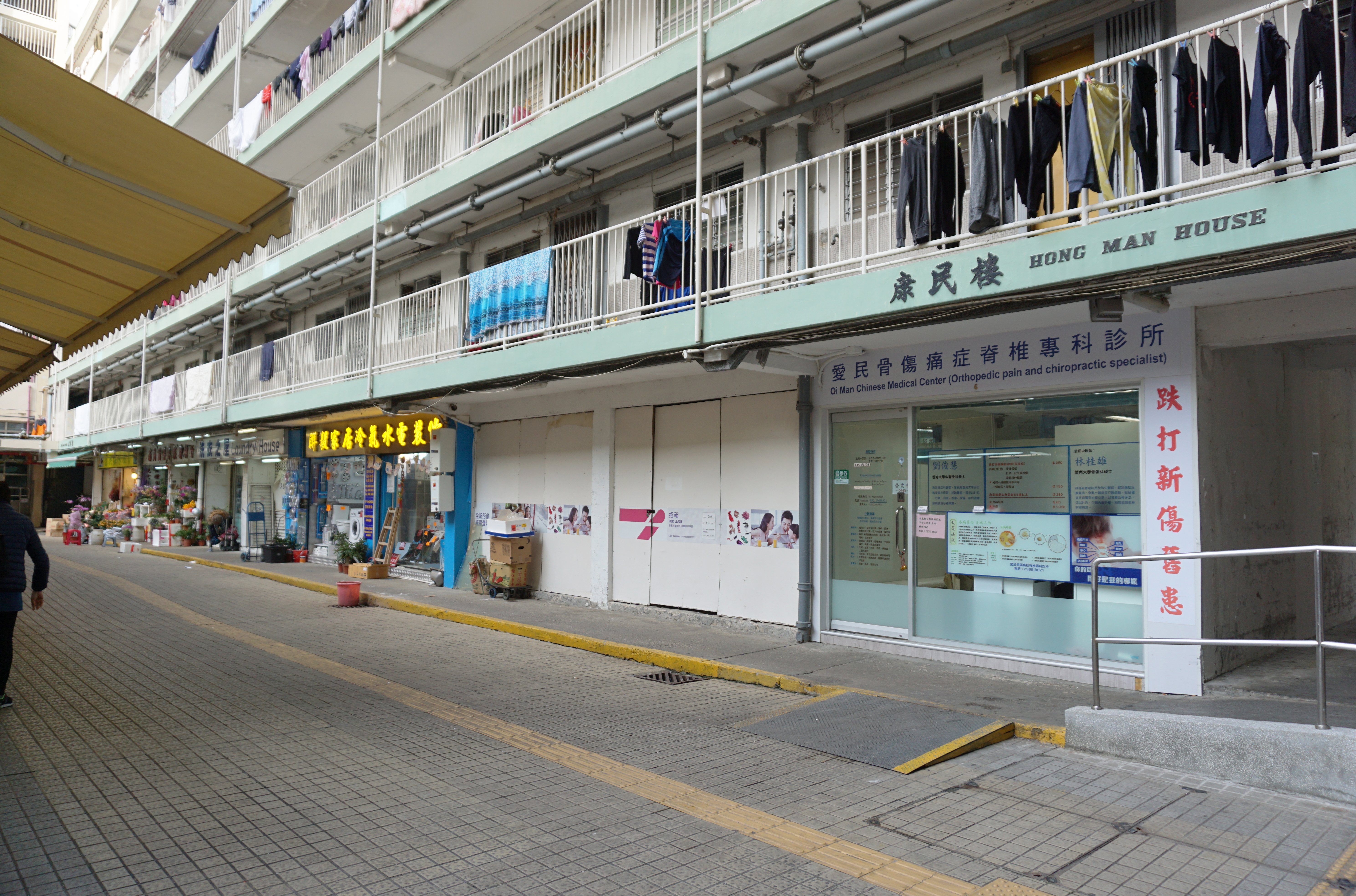 Hong Man House in Ho Man Tin, Hong Kong.